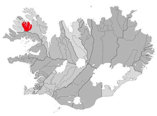 Based on Municipalities of Iceland.png.